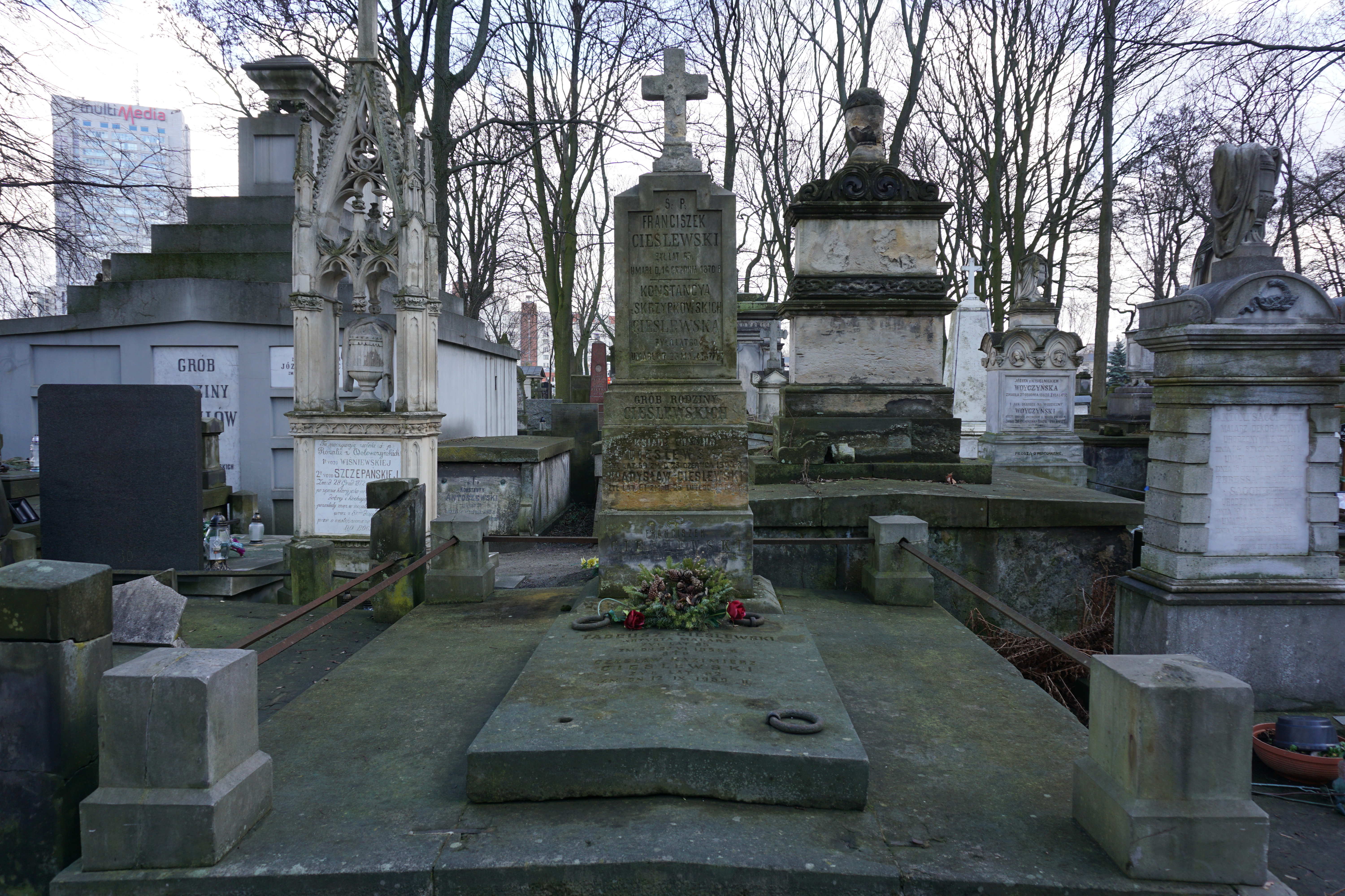 The grave of Tadeusz Cieślewski at the Powązki Cemetery (section 181, row 4, grave 15, 16)